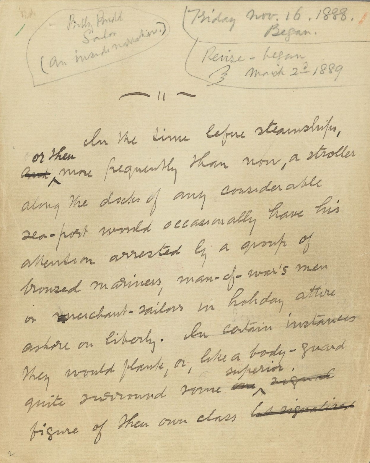 Opening leaf of the Billy Budd manuscript by Herman Melville with pencil notations. MS Am 188 (363), Houghton Library, Harvard University